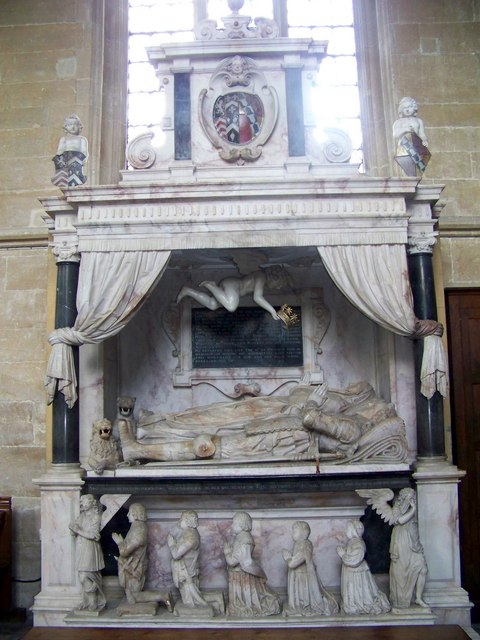 Monument to Lady Anne Sackville (d.25 September 1664) ("Anne, Lady Beauchamp"), a daughter of Robert Sackville, 2nd Earl of Dorset and wife firstly of Sir Edward Seymour, eldest son of Edward Seymour, Viscount Beauchamp, and secondly wife of Sir Edward Lewis (d.1630) by whom she had issue. Her splendid monument with effigies of herself and her second husband survives in Edington Priory Church in Wiltshire. Lady Anne's effigy lies to the rear, and higher than that of her second husband, Sir Edward Lewis, to show that she was his superior in rank.